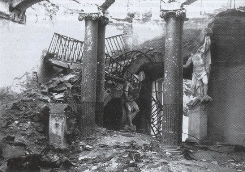 Rococo stairway of the Branicki Palace in Białystok, destroyed by the retreating Germans in 1944.[1]